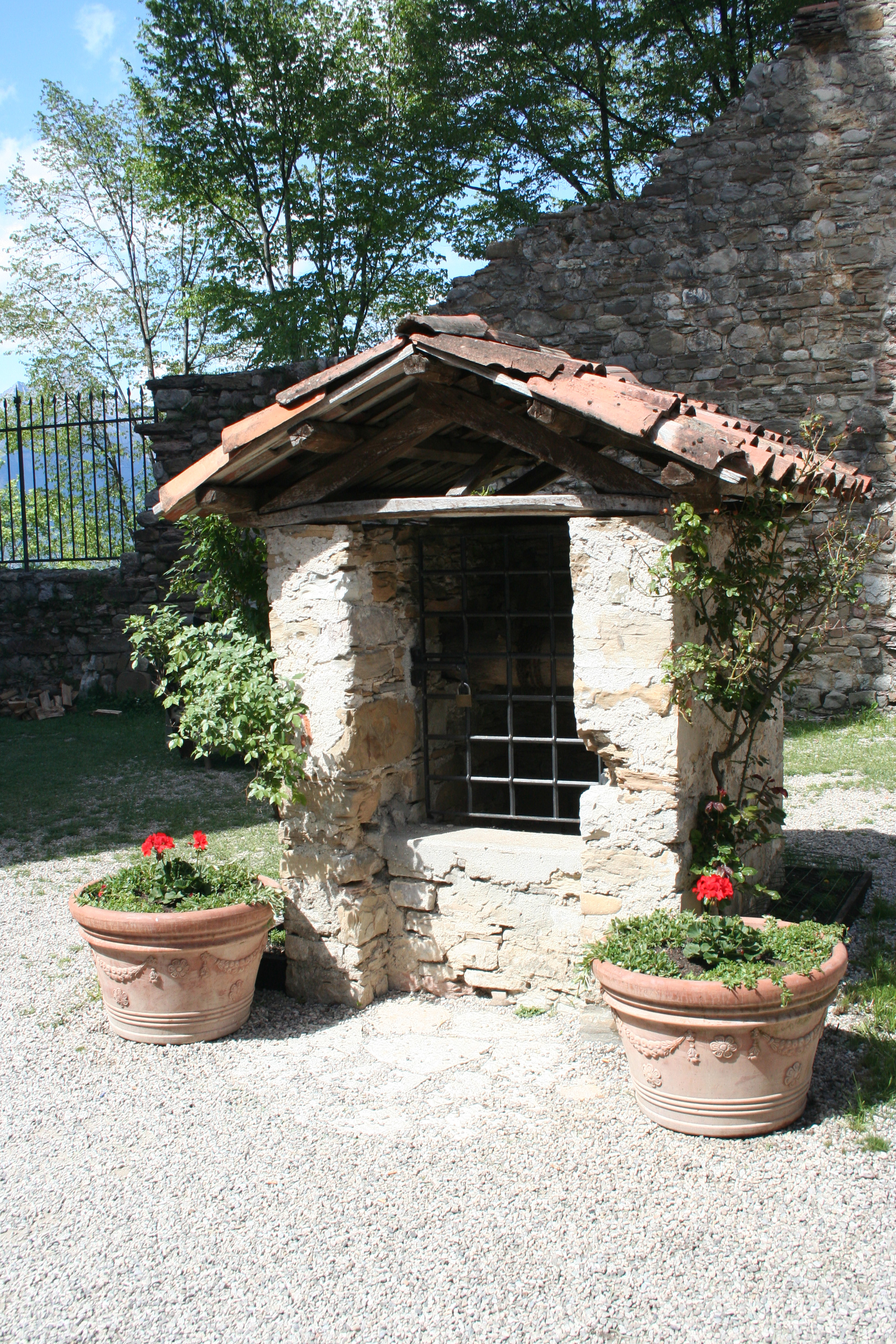 Wishing well at the castle of Zumelle, Belluno, Veneto, Italy.Well